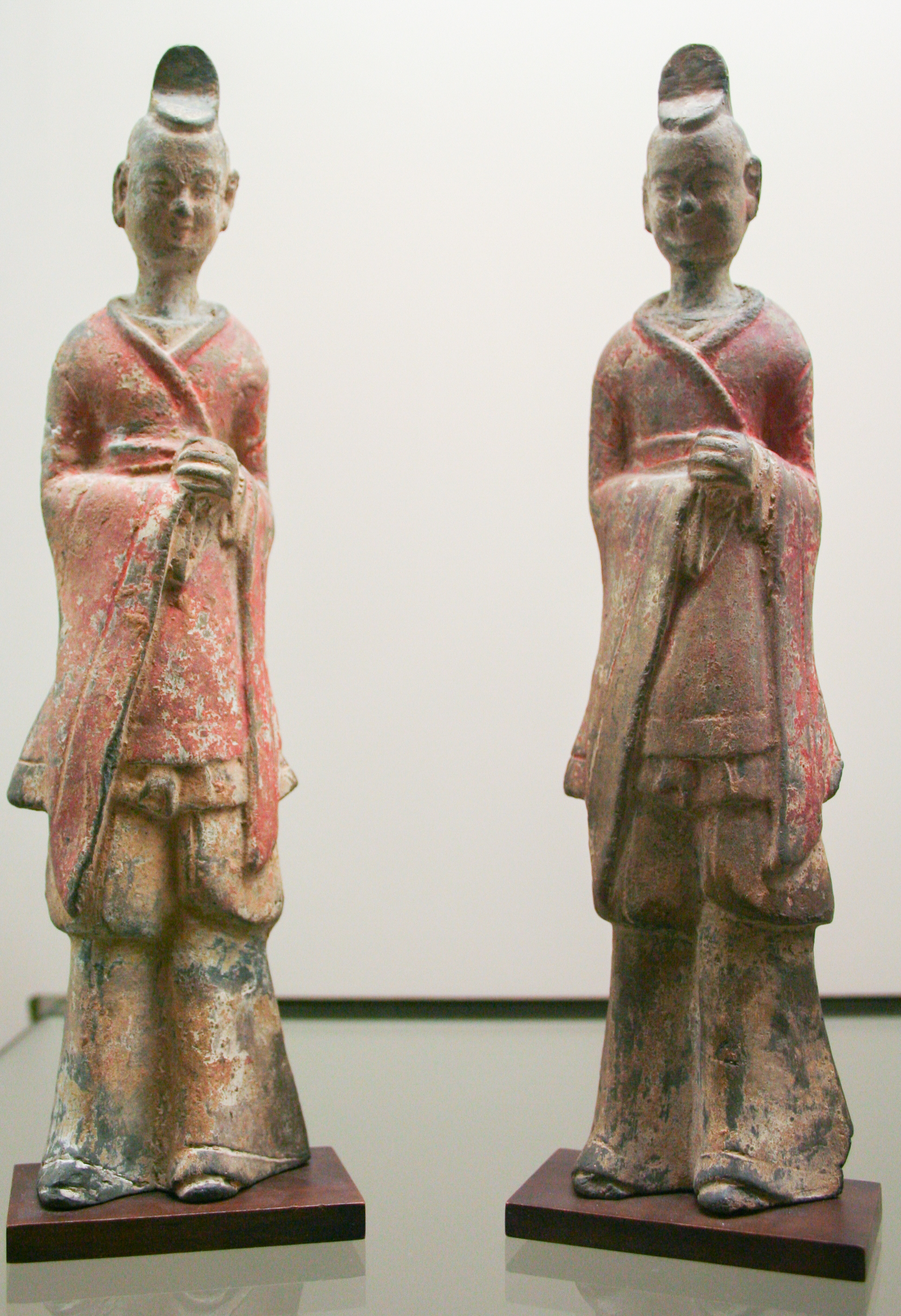 Two Officials. Terra Cotta. Northern China. 6th Century. Cernuschi Museum, Paris, France.